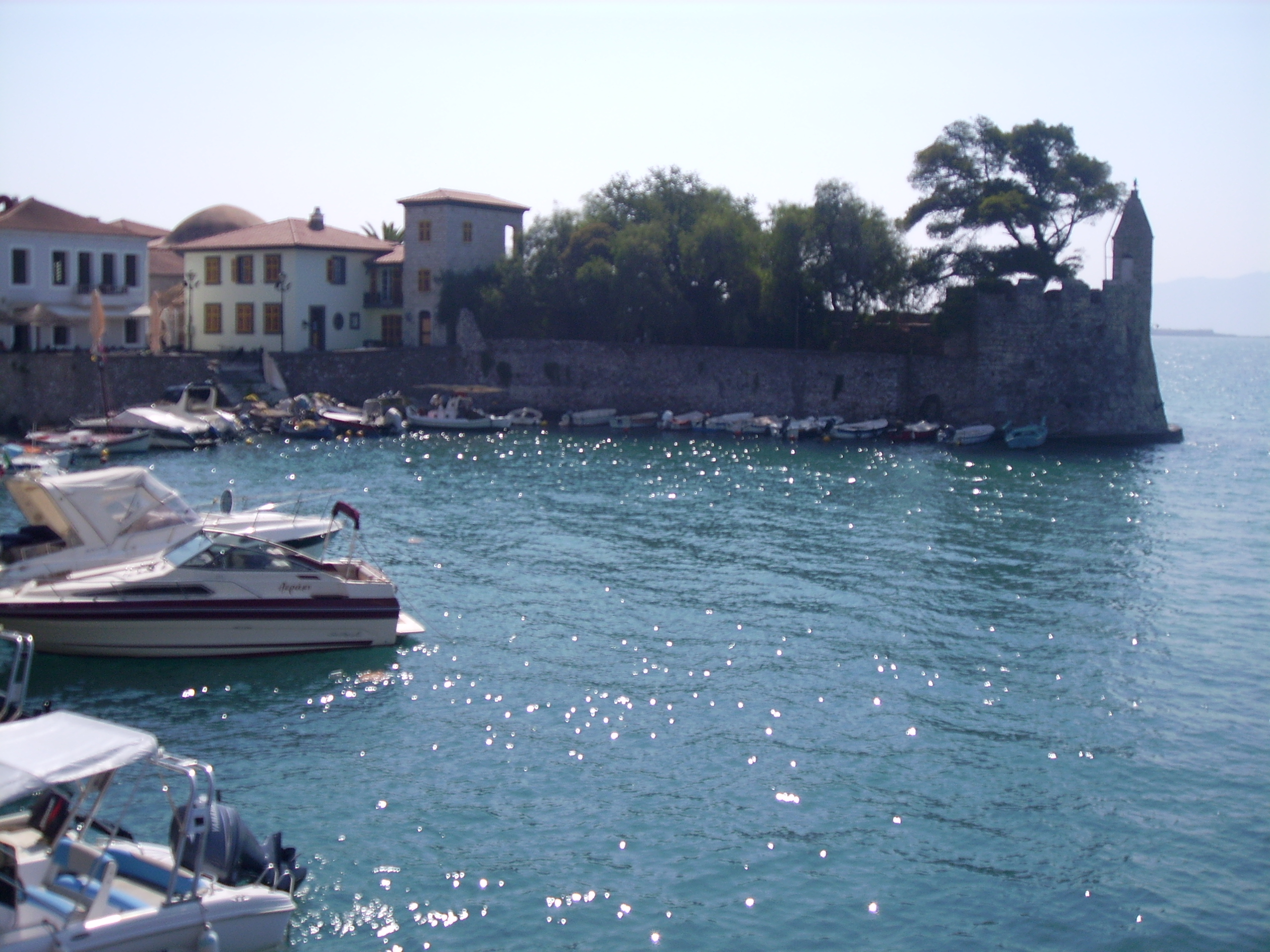 Venecian harbour in Naupactus or Nafpaktos or Ναύπακτος or Lepanto, Greece